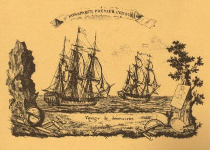 Géographe and the Naturaliste